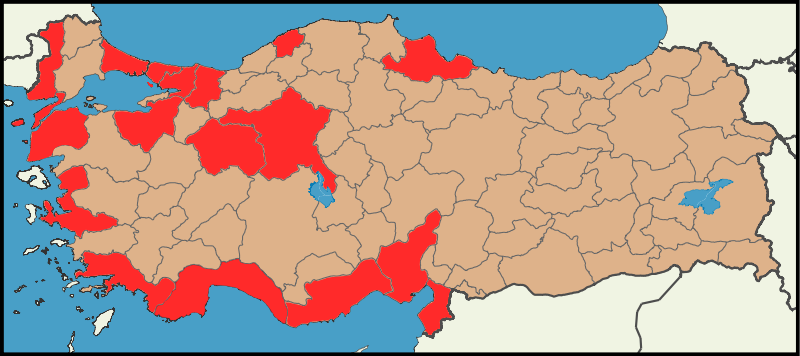 Map showing the ongoing public forums' provinces, where the democracy, nature and justice topics and problems are being discussed by the local folk, in various locations, in Turkey, during 2013 protests in Turkey. Attribution to Background Map: The Emirr